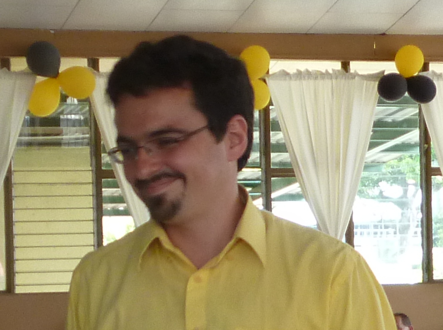 José María Villalta at a Broad Front provincial assembly in Ciudad Quesada, Costa Rica.